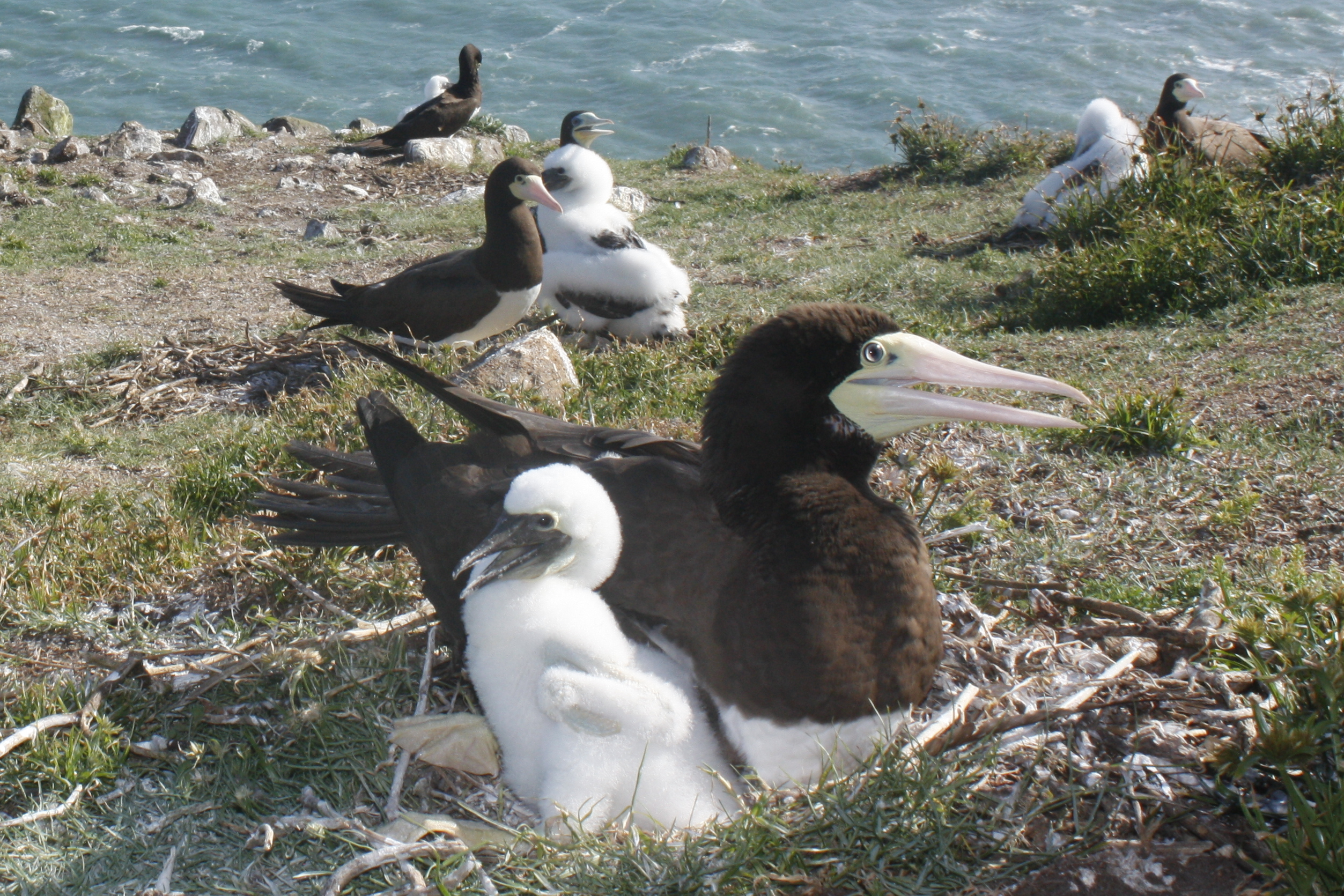 Sula leucogaster in the Moleques do Sul archipelago, southern Brazil.